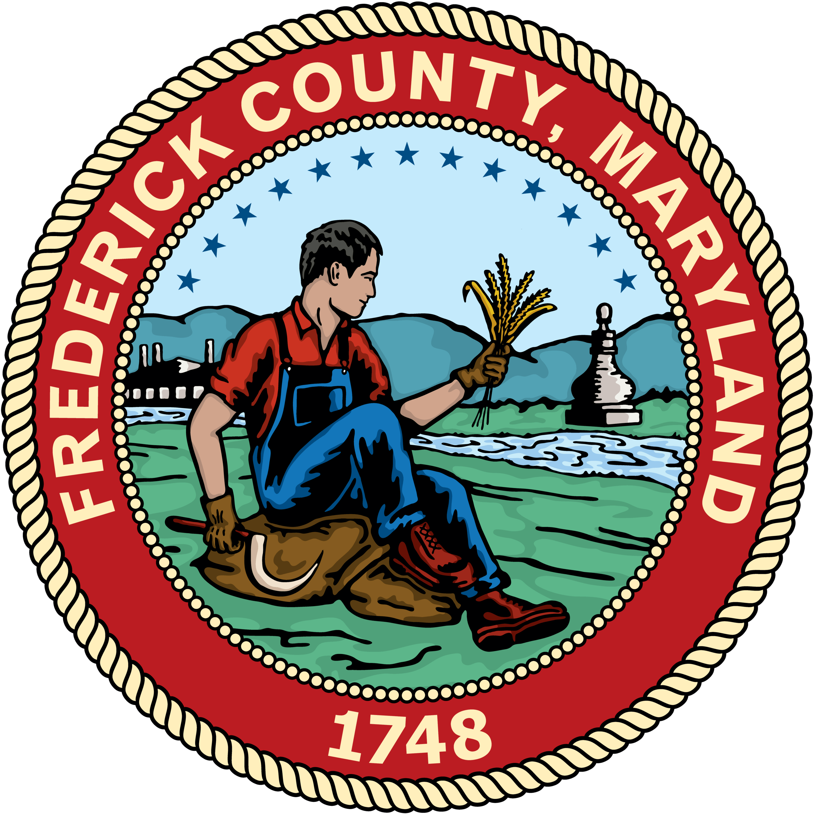 The official seal of Frederick County, Maryland. The original Frederick County seal, dating back into the mid-to-late 1800s, depicted a farmer holding an ancient spike-toothed harrow and a single-shovel plow. The seal was redesigned in May 1957 and emphasizes agriculture and agribusiness, industrial development, and the history of Frederick County. It is in the public domain due to its age and being part of an official Maryland state archive.